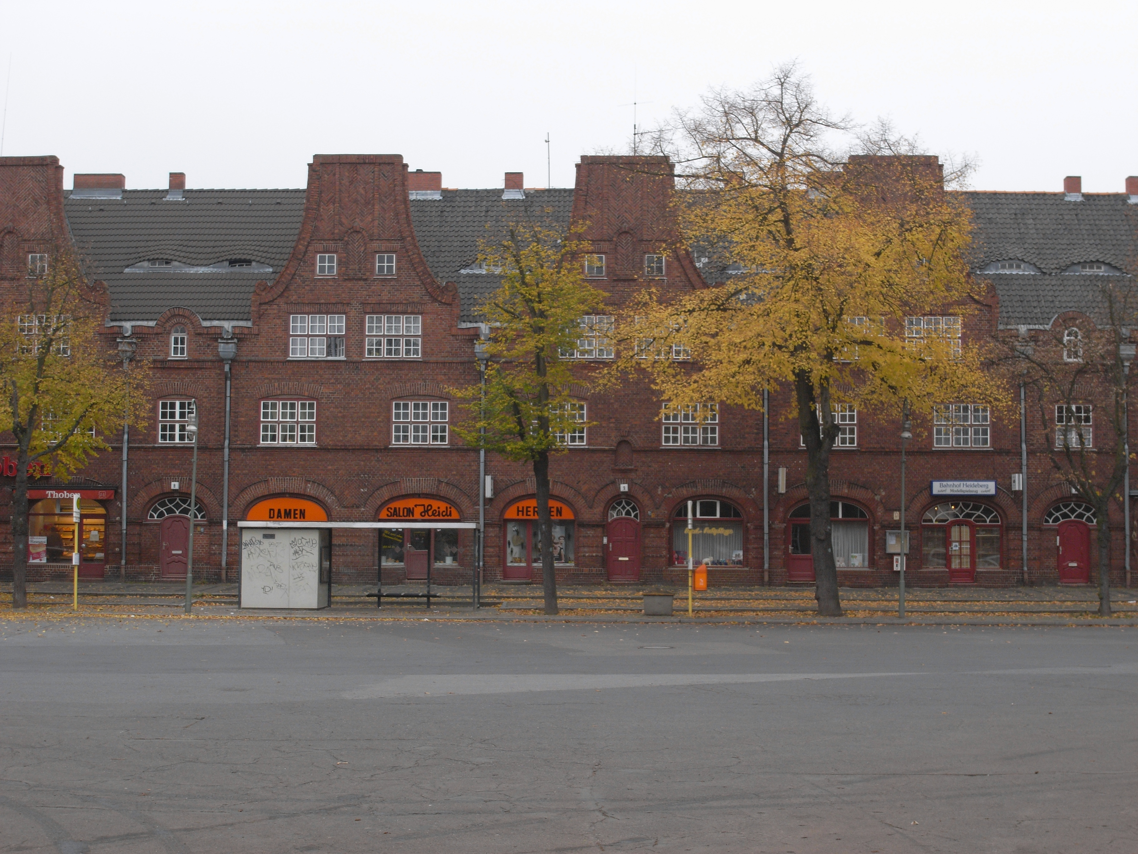 Department store on the market place of the Garden City Staaken (1914-17) near Berlin of the architect Paul Schmitthenner